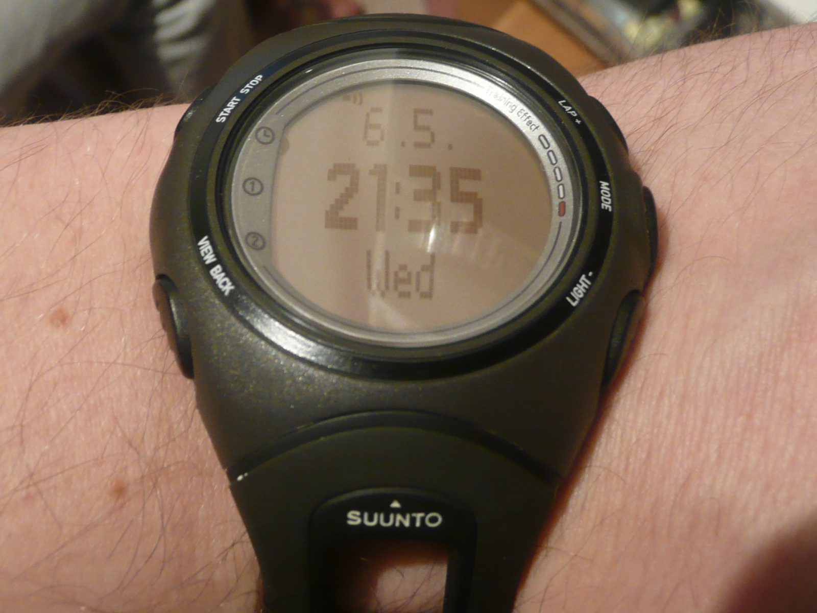 Suunto Heart Rate Monitor watch t6c